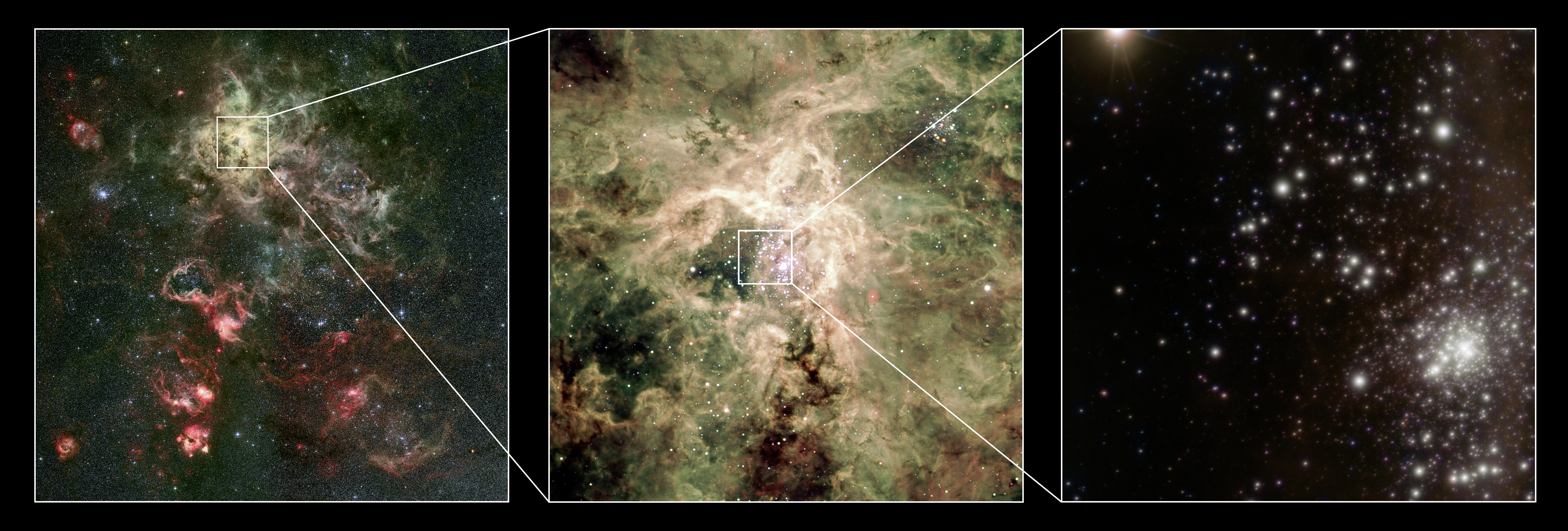 Using a combination of instruments on ESO’s Very Large Telescope, astronomers have discovered the most massive stars to date, some weighing at birth more than 300 times the mass of the Sun, or twice as much as the currently accepted limit of 150 solar masses. The most extreme of these stars was found in the cluster RMC 136a (or R136 as it is more usually named). Named R136a1, it is found to have a current mass of 265 times that of the Sun. Being a little over a million years old, R136a1 is already “middle-aged” and has undergone an intense weight-loss programme, shedding a fifth of its initial mass over that time, or more than fifty solar masses. It also has the highest luminosity, close to 10 million times greater than the Sun. R136 is a cluster of young, massive and hot stars located inside the Tarantula Nebula, in one of the neighbourhood galaxies of the Milky Way, the Large Magellanic Cloud, 165 000 light-years away. R136 contains so many stars that on a scale equivalent to the distance between the Sun and the nearest star there are tens of thousands of stars. Hundreds of these stars are so incredibly bright that if we were to sit on a (hypothetical) planet in the middle of the cluster the sky would never get dark. This montage shows a visible-light image of the Tarantula nebula as seen with the Wide Field Imager on the MPG/ESO 2.2-metre telescope (left) along with a zoomed-in visible-light image from the Very Large Telescope (middle). A new image of the R136 cluster, obtained with the near-infrared MAD adaptive optics instrument on the Very Large Telescope is shown in the right-hand panel, with the cluster itself at the lower right. The MAD image provides unique details on the stellar content of the cluster.